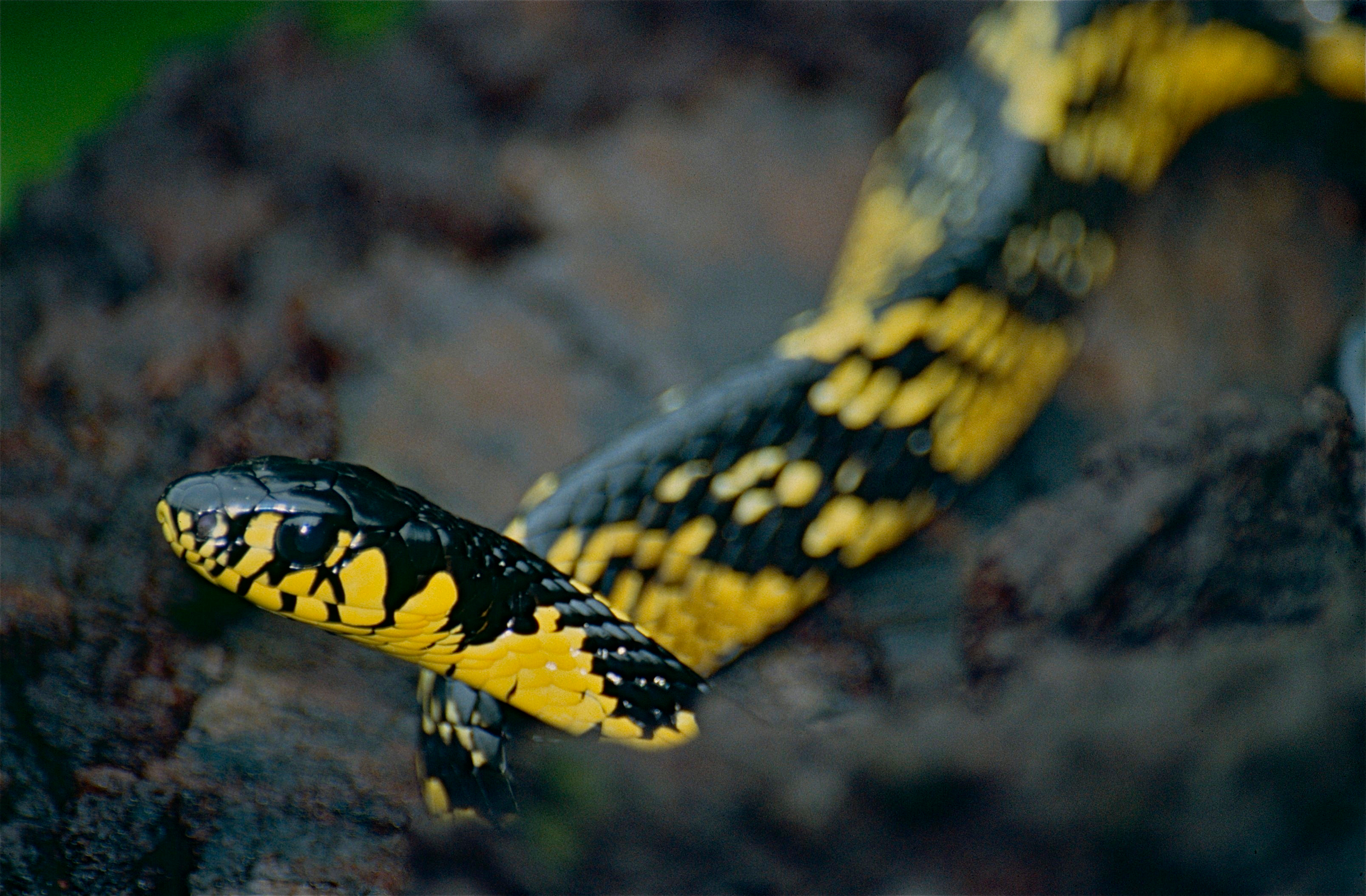 Route de Regina, Guyane, FRANCE Scanned Slide from 2000